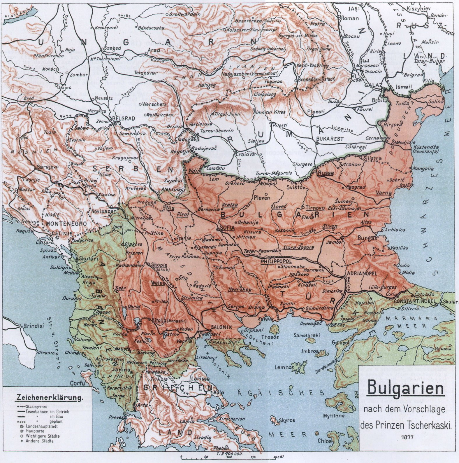 The Bulgarian lands according to Russian Prince Tscherkassky